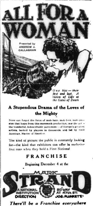 American advertisement for the German drama film Danton (1921) under its U.S. release title All for a Woman, ad consists of a drawing with no stills from the film, on page 45 of the December 2, 1921 Variety.